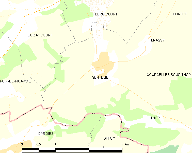 Map of French municipality Sentelie